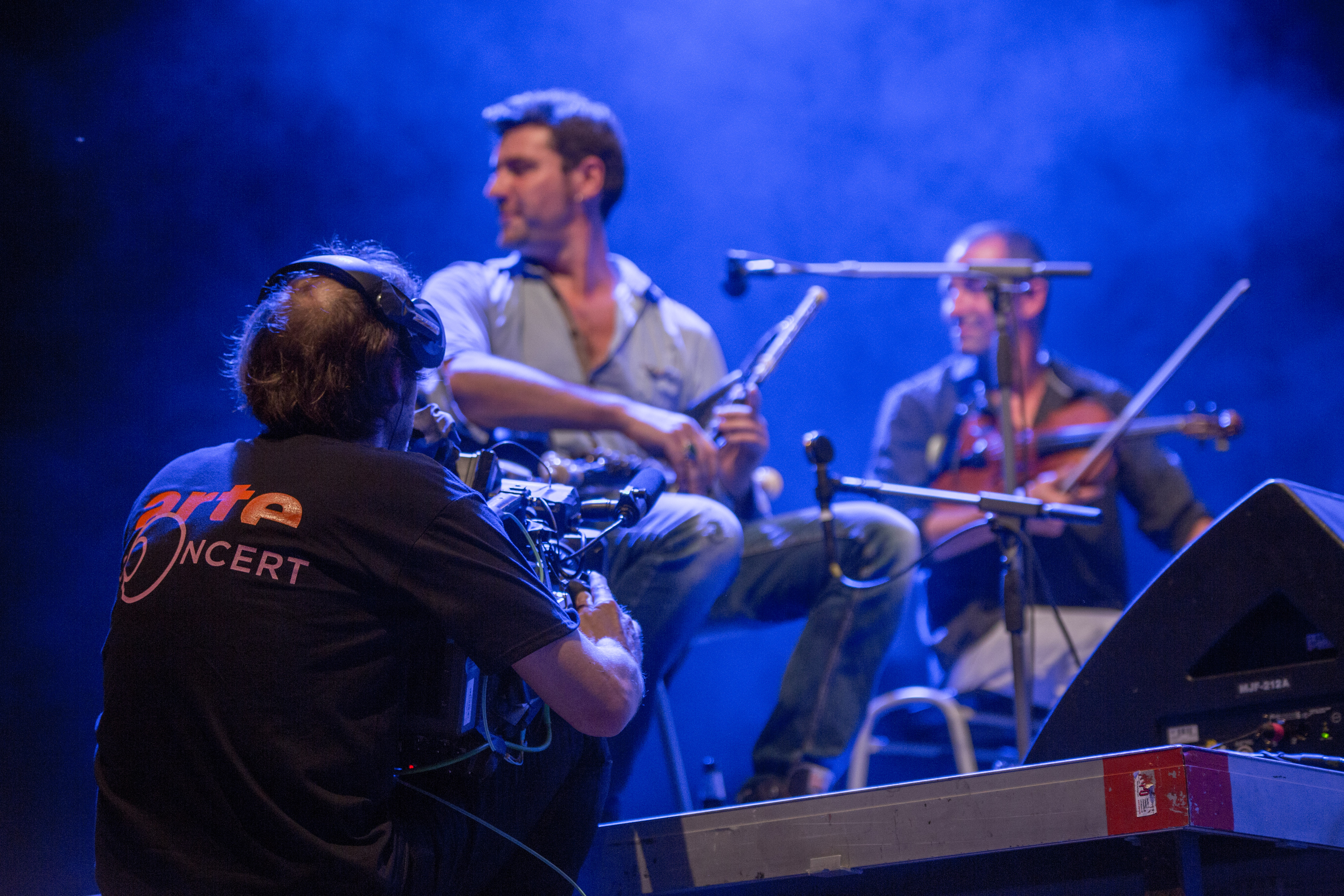 Celtic Social Club TTF.Rudolstadt 2015 Festivalsommer This photo was created with the support of donations to Wikimedia Deutschland in the context of the CPB project "Festival Summer".